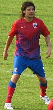 Pablo Brandán in meciul Vointa Sibiu vs Steaua, 1-1, din 23 iulie 2011.